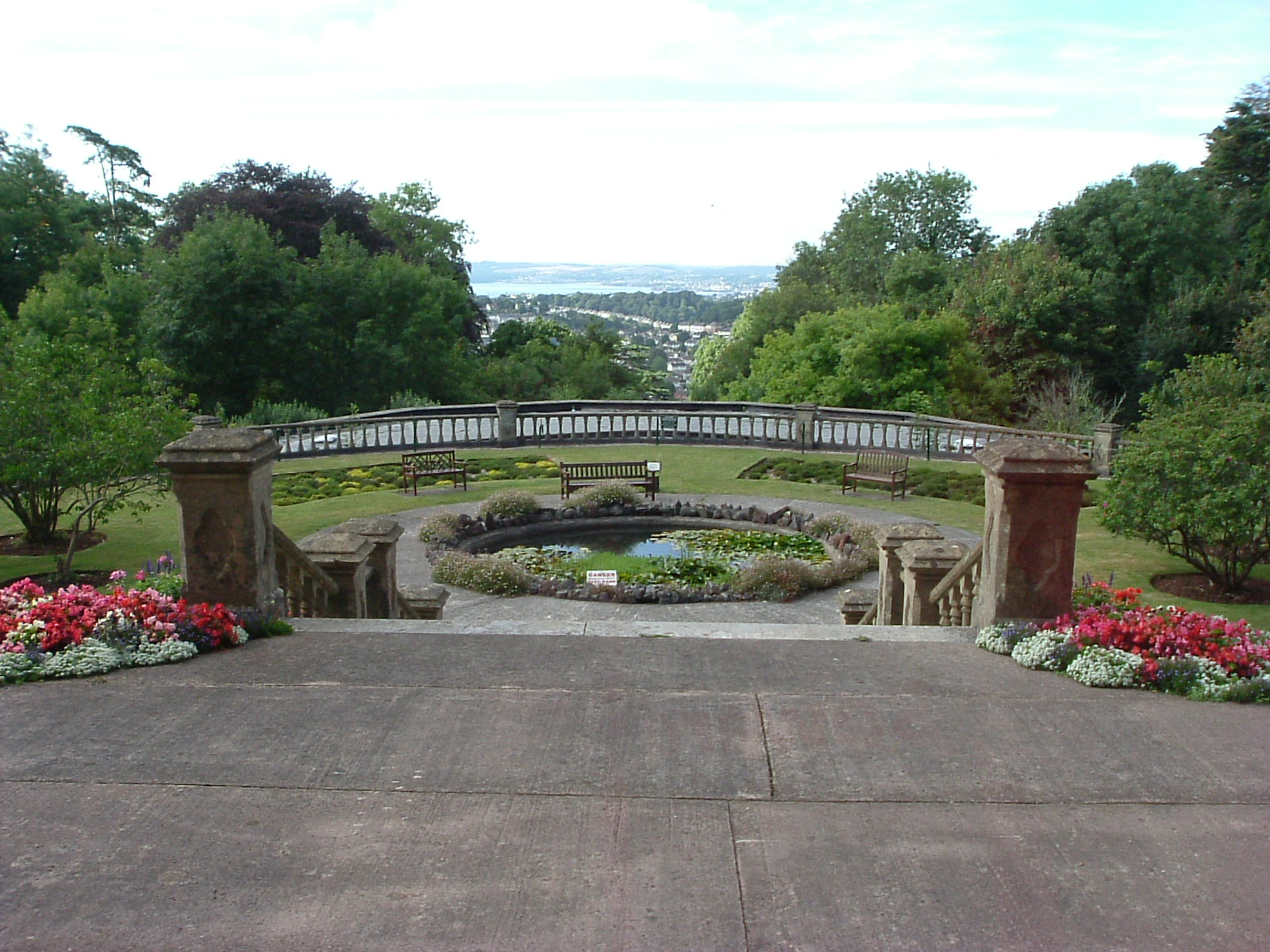 Peter Lunn, Brunel Manor Gardens (camera photo)